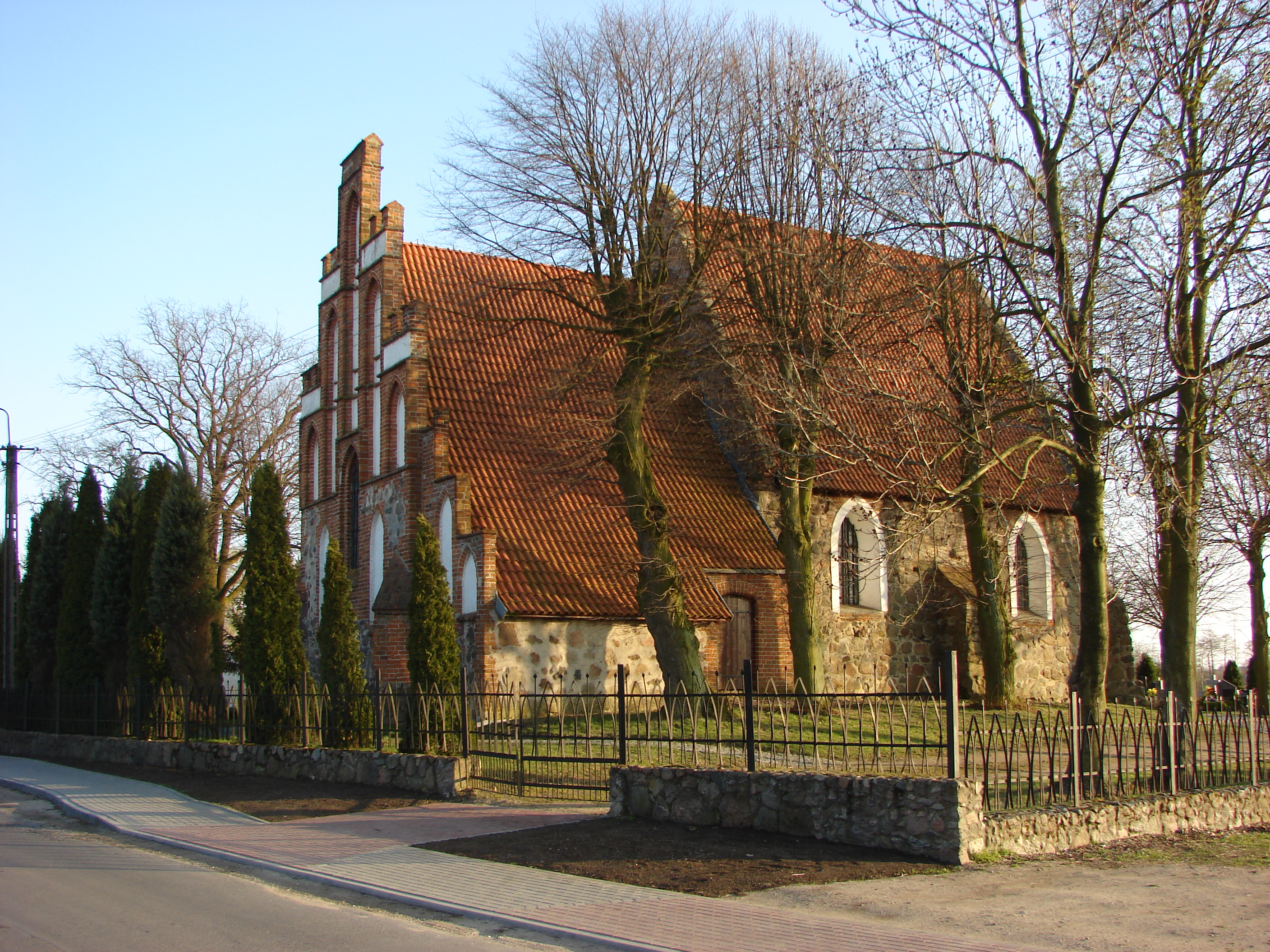 Rogowo-Toruń County. Church of The Holy Cross. XIII-XIV century.